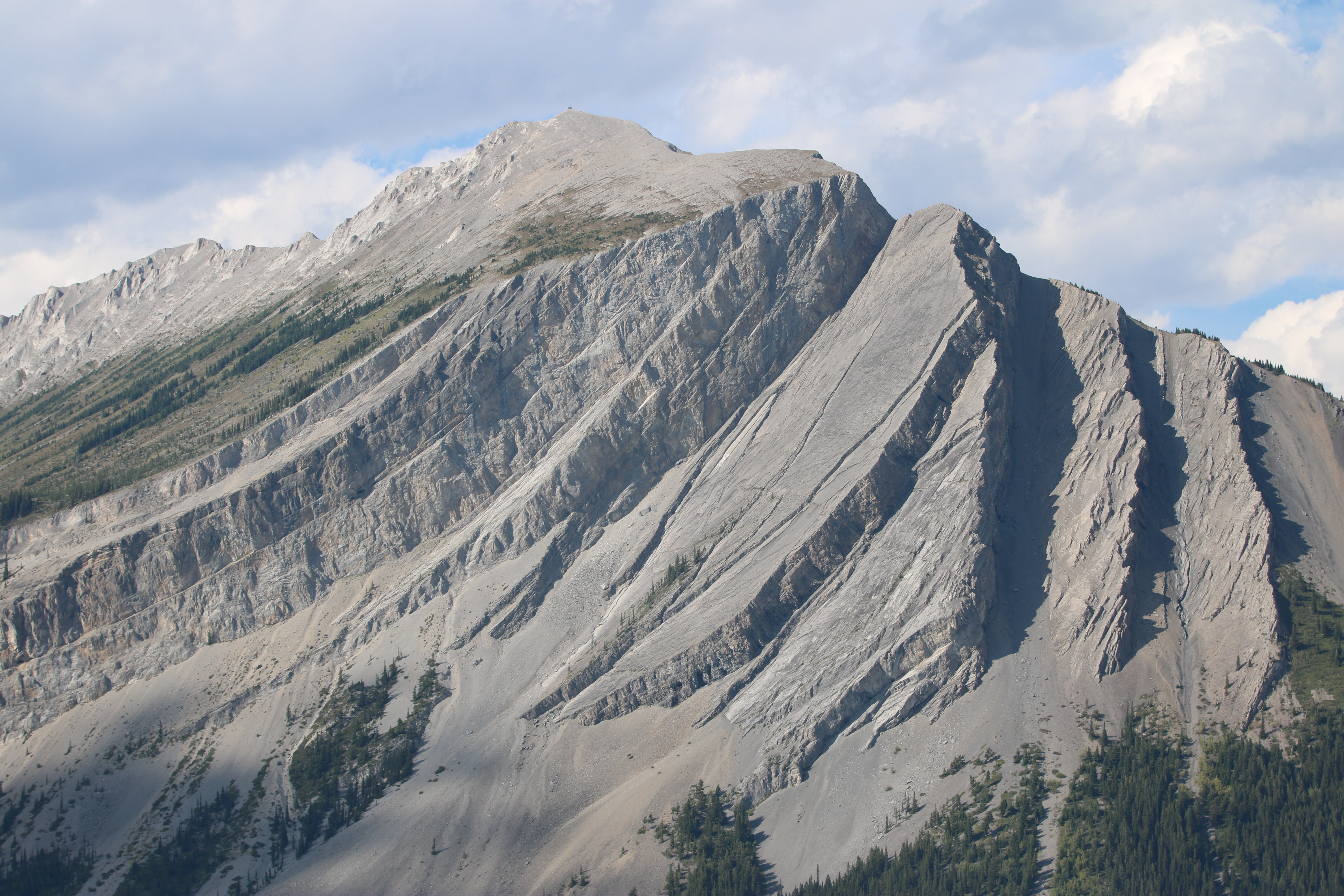 not somewhere i would venture without a very good reason. also see the next photo.